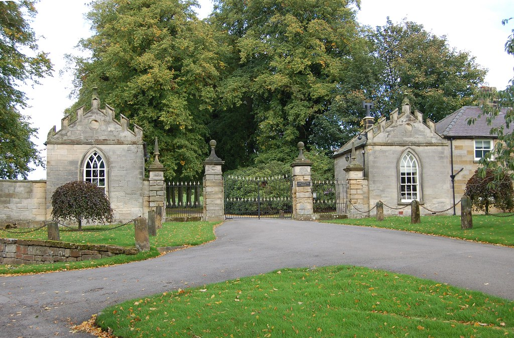 Grade II Listed Gate Lodges, Thimbleby Hall